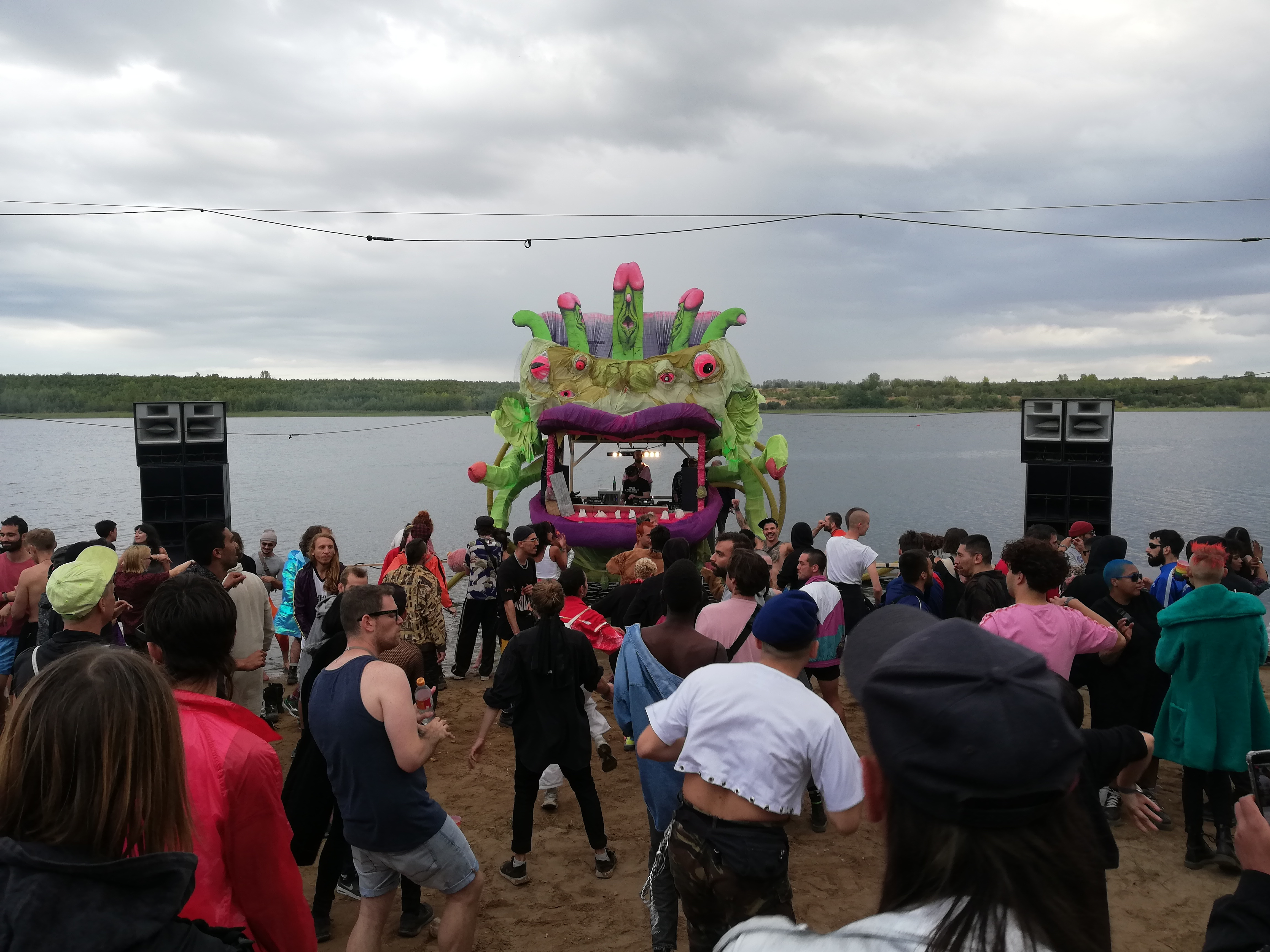 Crowd dancing to techno at a stage at Whole Festival 2018 in Germany